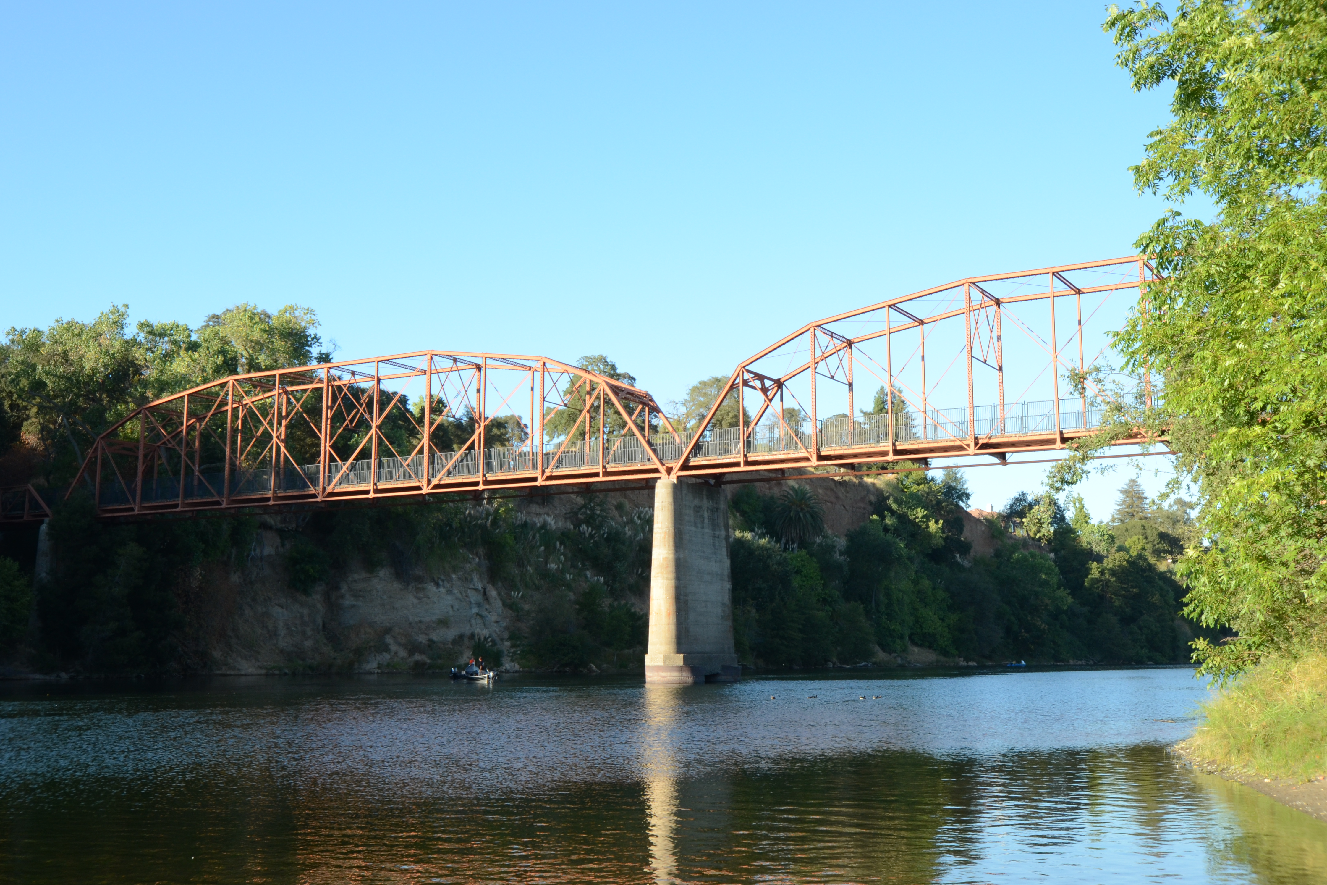 Fair Oaks Bridge